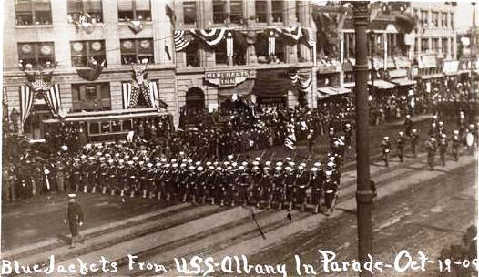 USS Albany bluejackets on parade at Portola Festival in San Francisco, Calif., October 19, 1909.